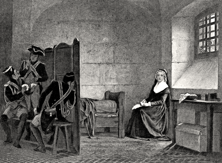 Engraved of Marie Antoinette in the Conciergerie.